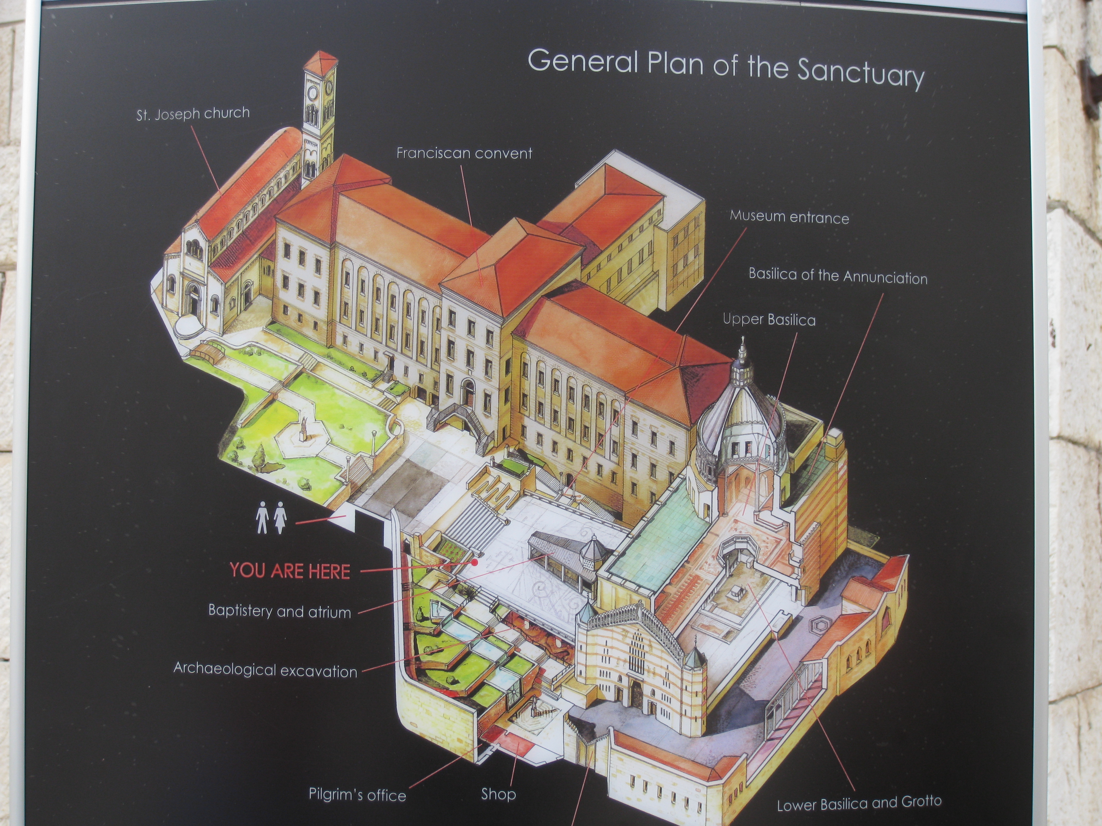 The Church of the Annunciation כנסיית הבשורה בנצרת